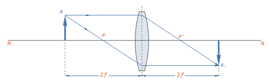 Object: Description: Author: Panther, uploaded here by Maksim Created: 12 Feb 2005 Source: Drawn by Panther using Corel Draw!